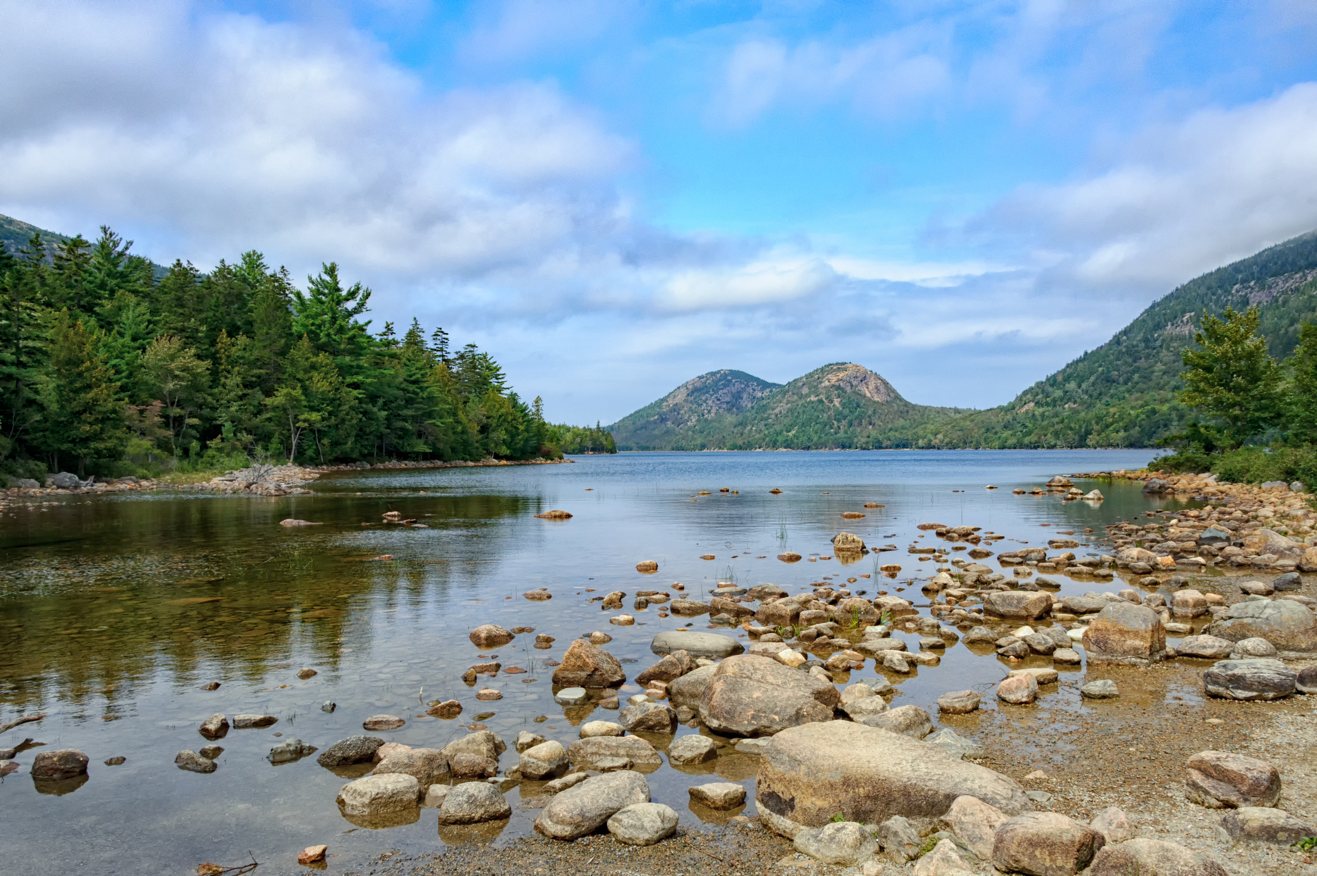 Jordan Pond Reflections